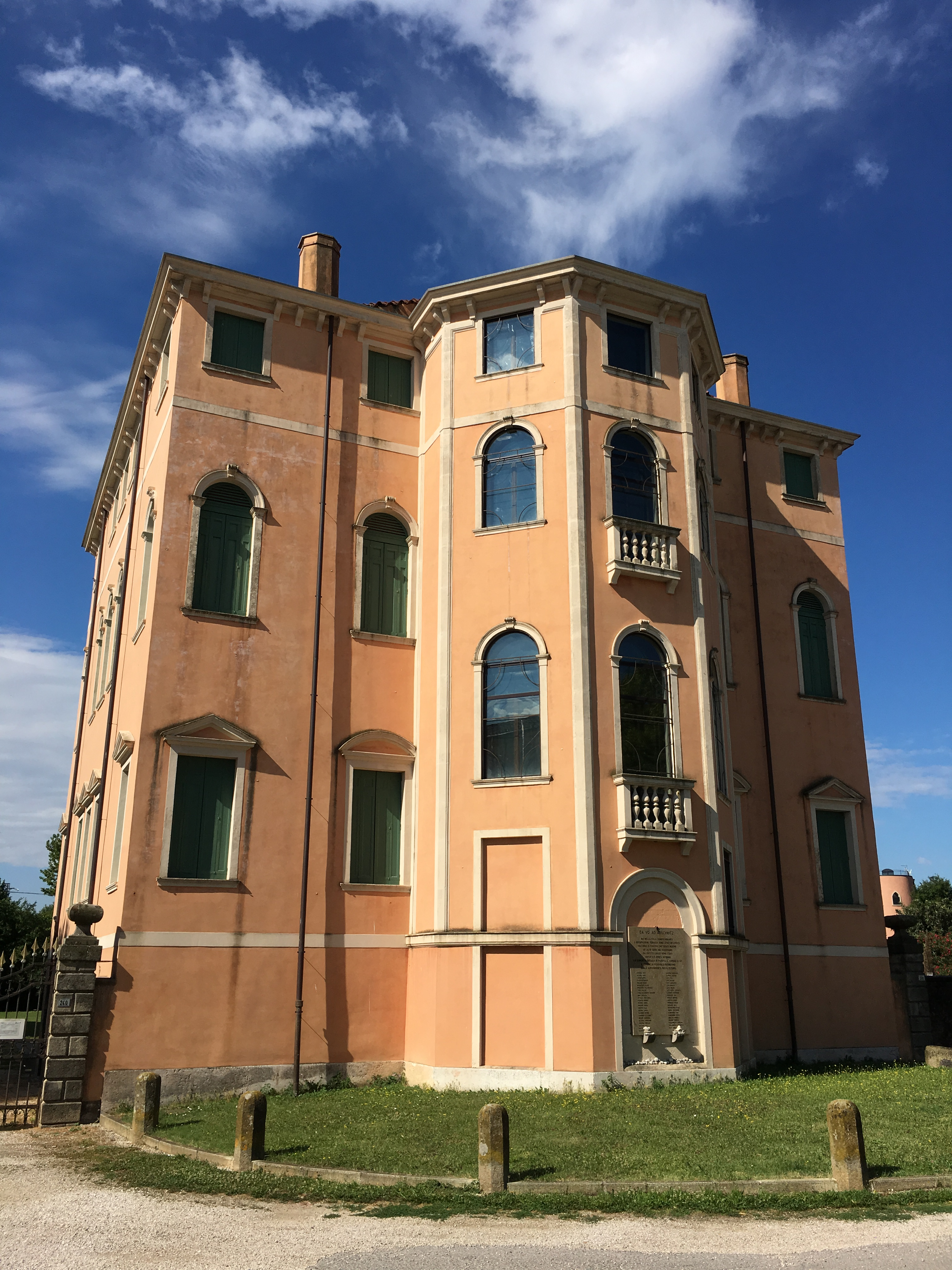 Sideview, Streetview of Villa Contarini Giovanelli Venier in Vo' Vecchio, Italy